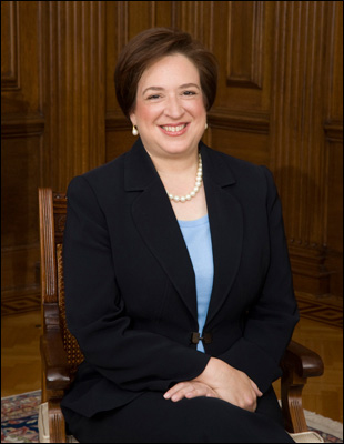 Elena Kagan, Justice of the Supreme Court of the United States.